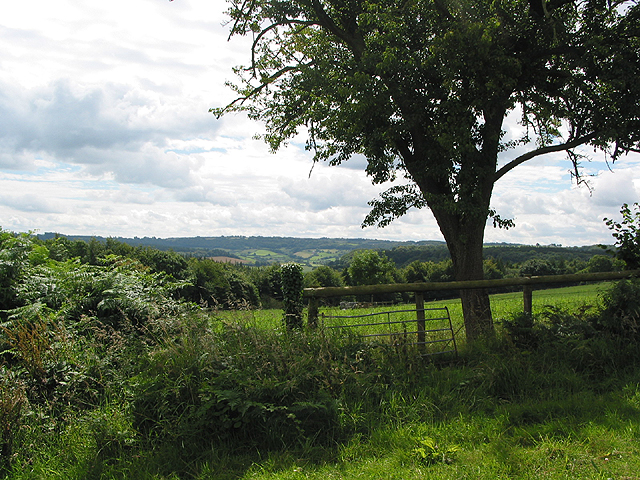 View towards the Forest of Dean from Penyard Hill